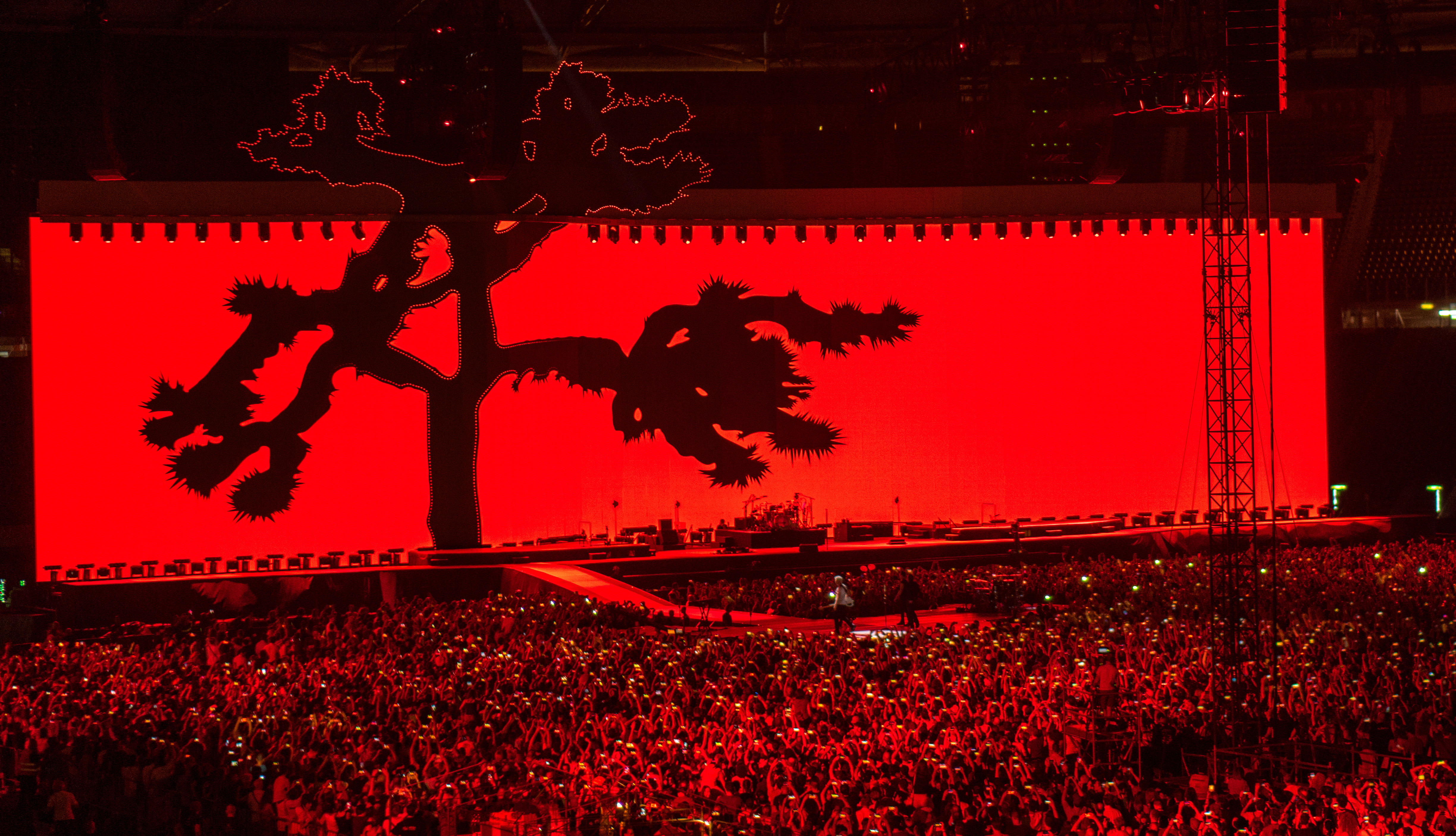 The video screen for U2's Joshua Tree Tour 2017 lights up red and displays a silhouette of a Joshua Tree as a performance of "Where the Streets Have No Name" begins, at a show in Rome, Italy on July 16, 2017